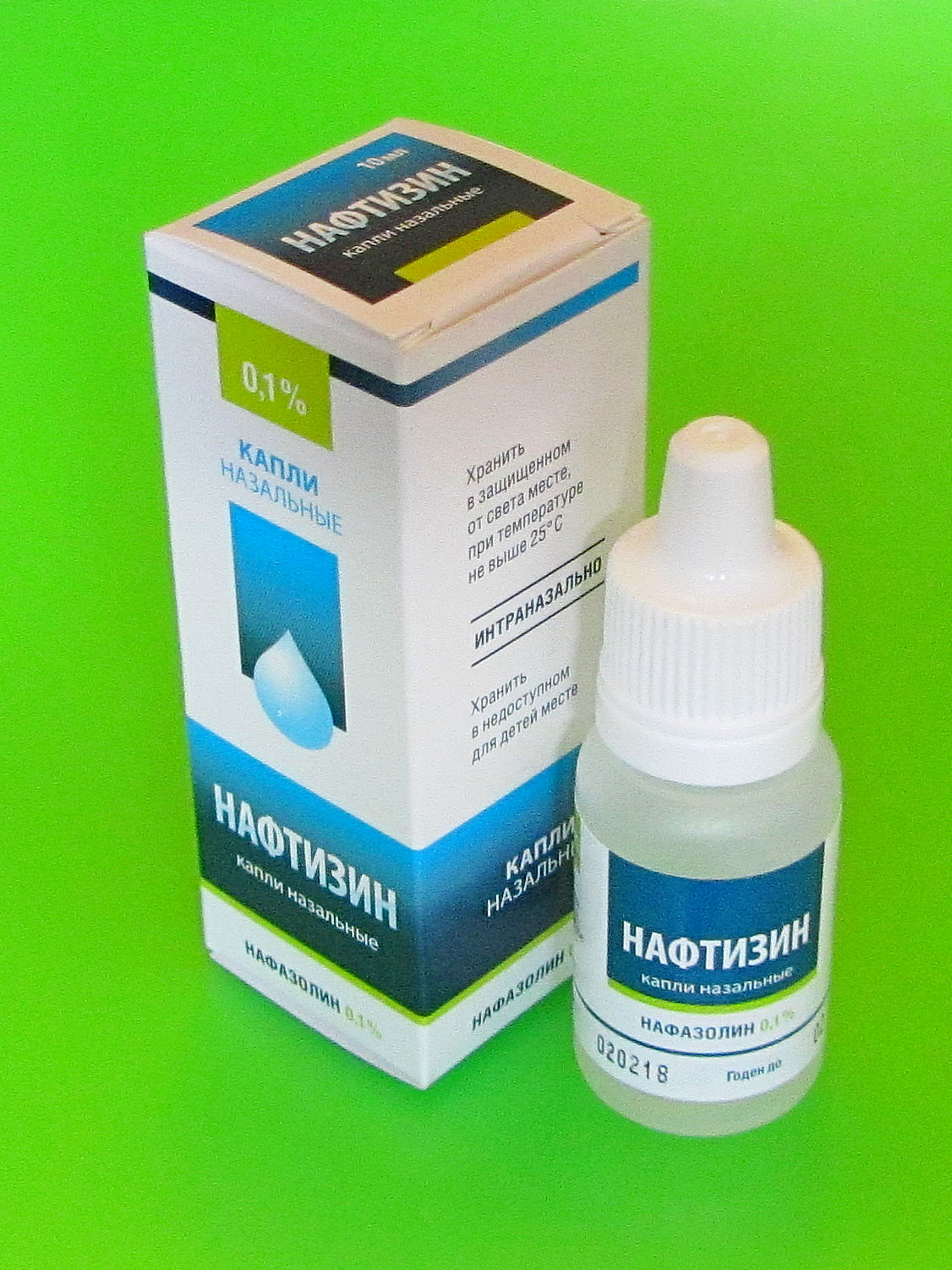 Naphazoline